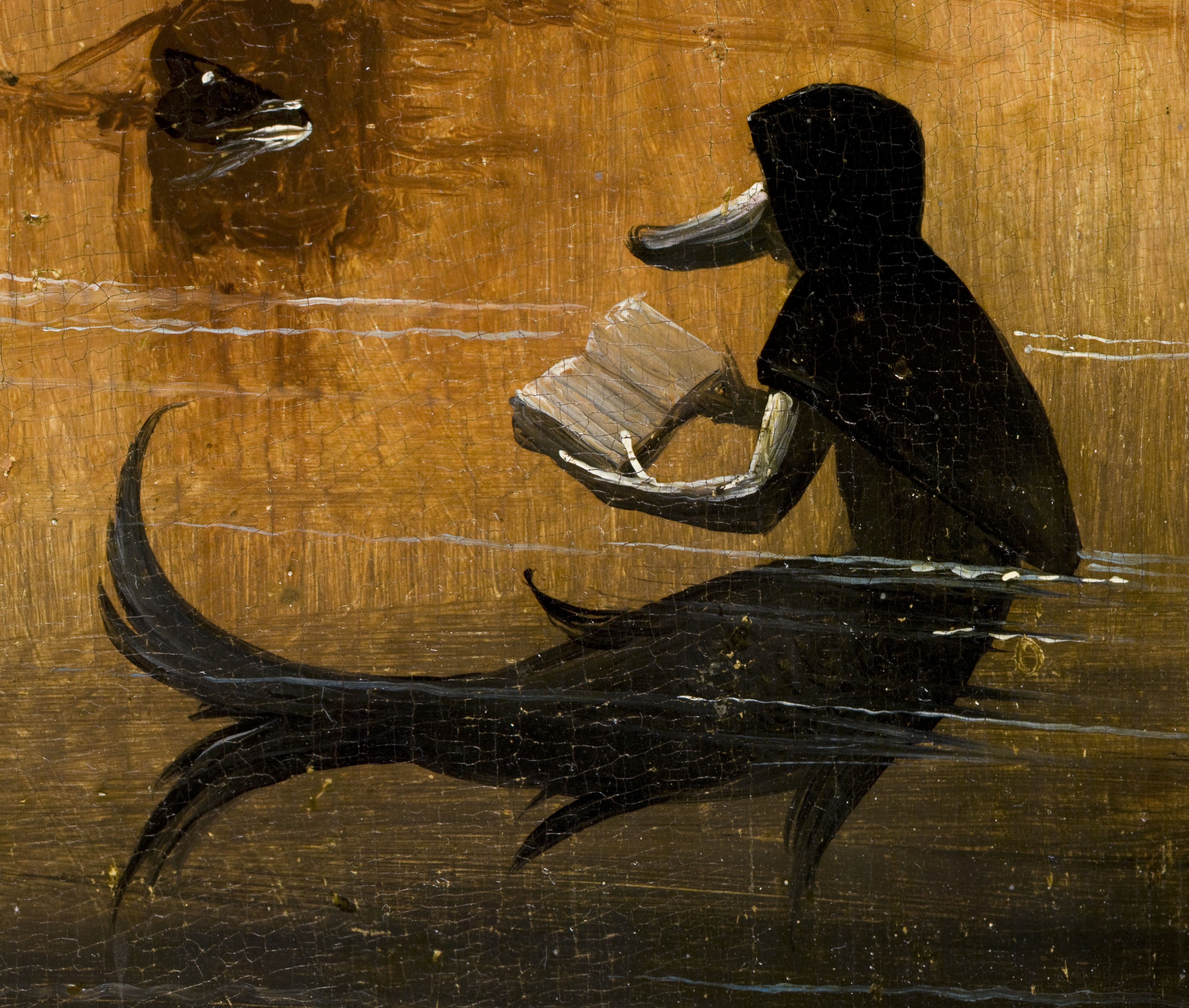 Detail of "The Garden of Earthly Delights" by Hieronymus Bosch, from left panel "Adam and Eve", lower right corner.